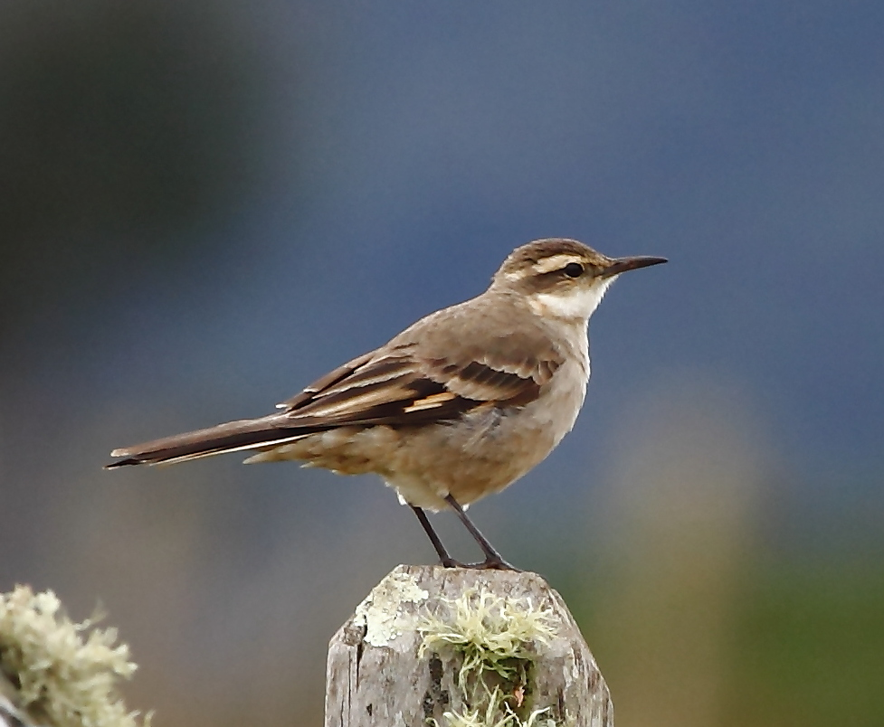 Long-tailed cinclodes at Urupema - SC - Brazil